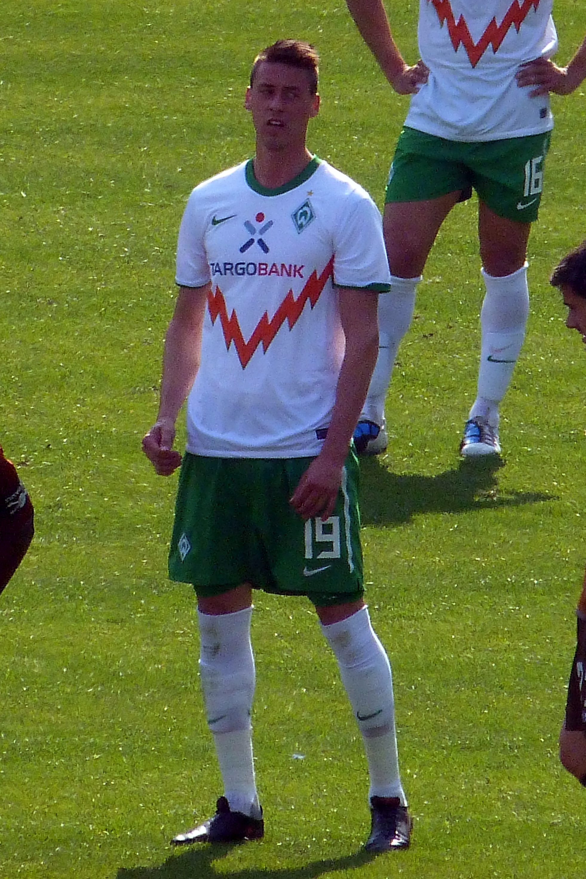 Sandro Wagner playing for SV Werder Bremen